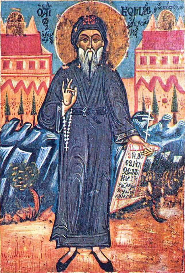 Kosmas Aitolos